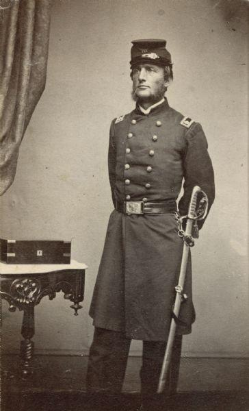 Portrait of Lucius Fairchild in his uniform as lieutenant colonel of the 2nd Wisconsin Infantry by the Brady studio before his promotion to colonel on November 17, 1862, Wisconsin State Historical Society.